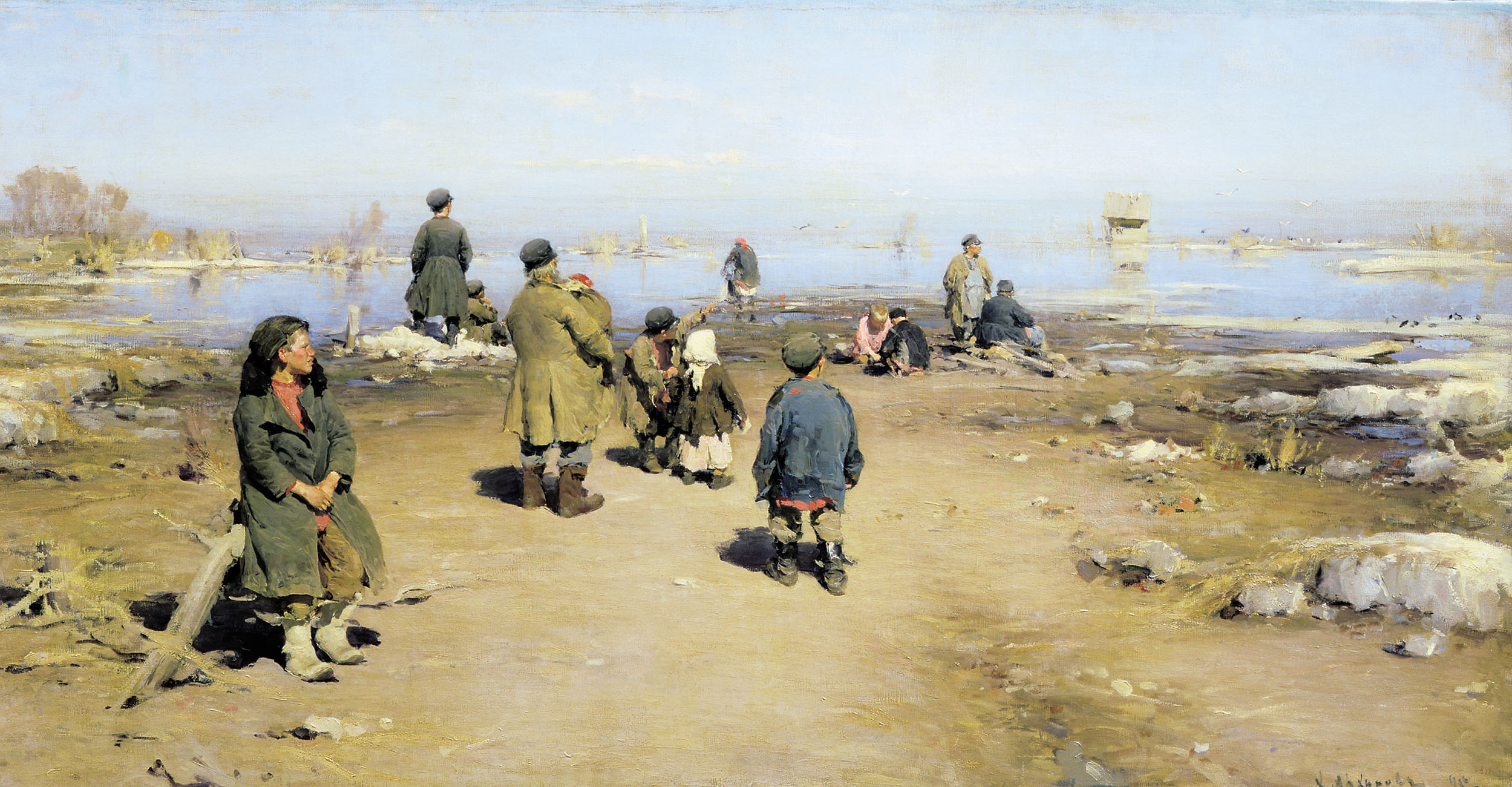 "Waiting for the Boat"